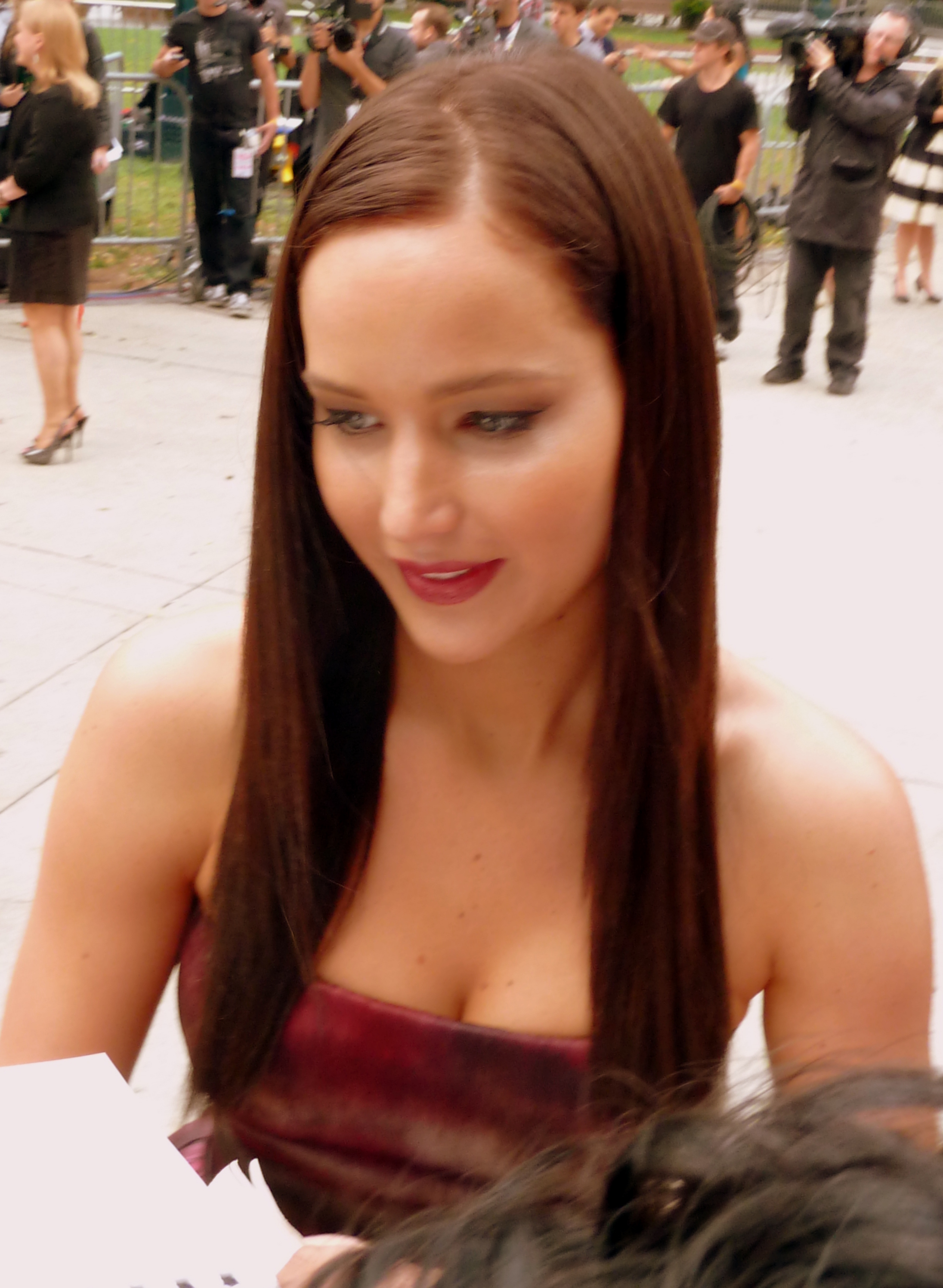 Jennifer Lawrence at the premiere of Silver Linings Playbook, In Toronto Film Festival 2012.